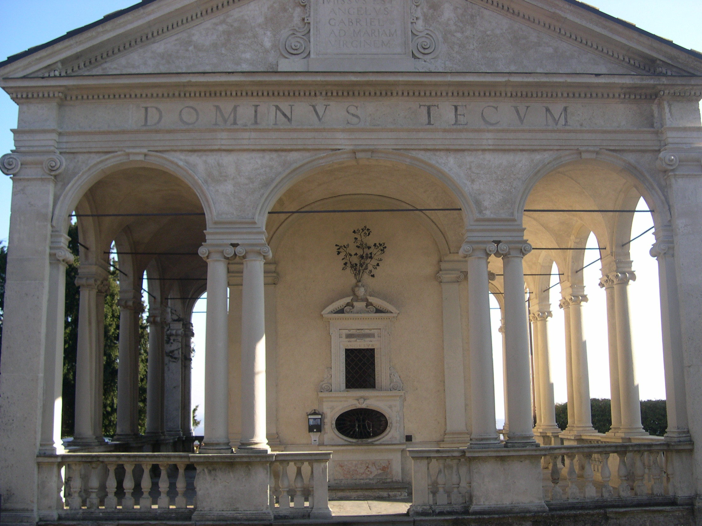 Chapel I of Sacro Monte (Varese). (Not Chapel II as indicated in title).